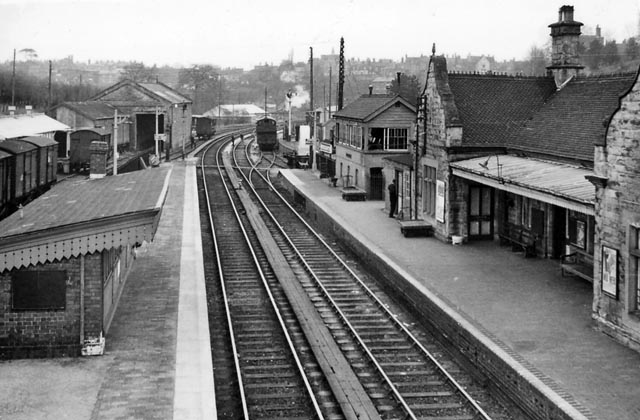 Bridgnorth Station. View northward, towards Buildwas and Shrewsbury; ex-GWR Severn Valley line, Shrewsbury - Buildwas - Bridgnorth - Bewdley - Hartlebury. Line closed to passengers Shrewsbury - Bewdley 9/9/63, to goods down to Alveley Sidings 7/12/63, coal south from Alveley until 6/2/69. Reopened by Heritage Severn Valley Railway in stages from 23/5/70, reaching Bewdley 18/5/74 and Kidderminster 30/7/84, BR having provided a service Hartlebury - Bewdley - Kidderminster until 5/1/70.